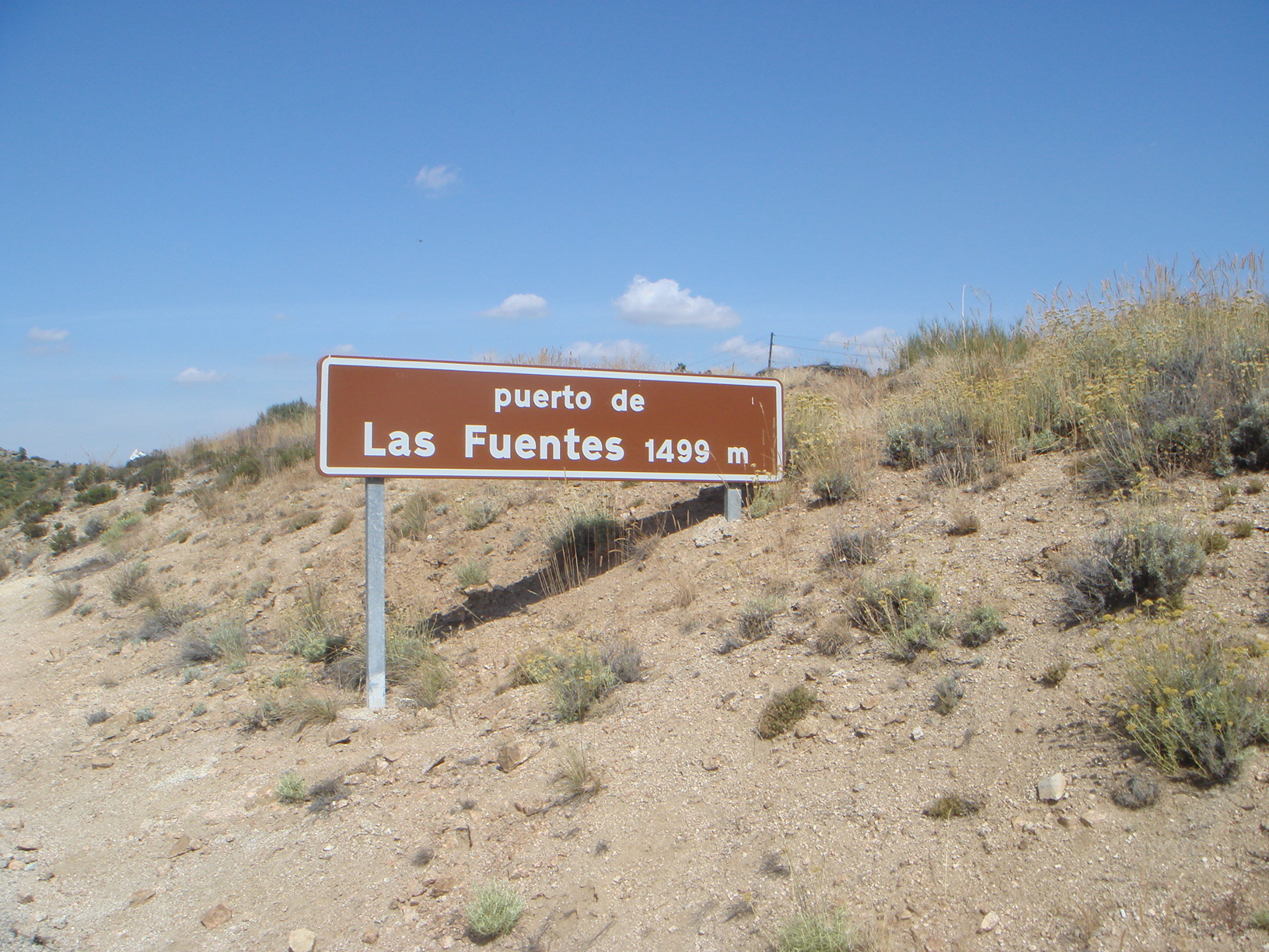 Las Fuentes mountain pass, Spain, Sierra de Ávila